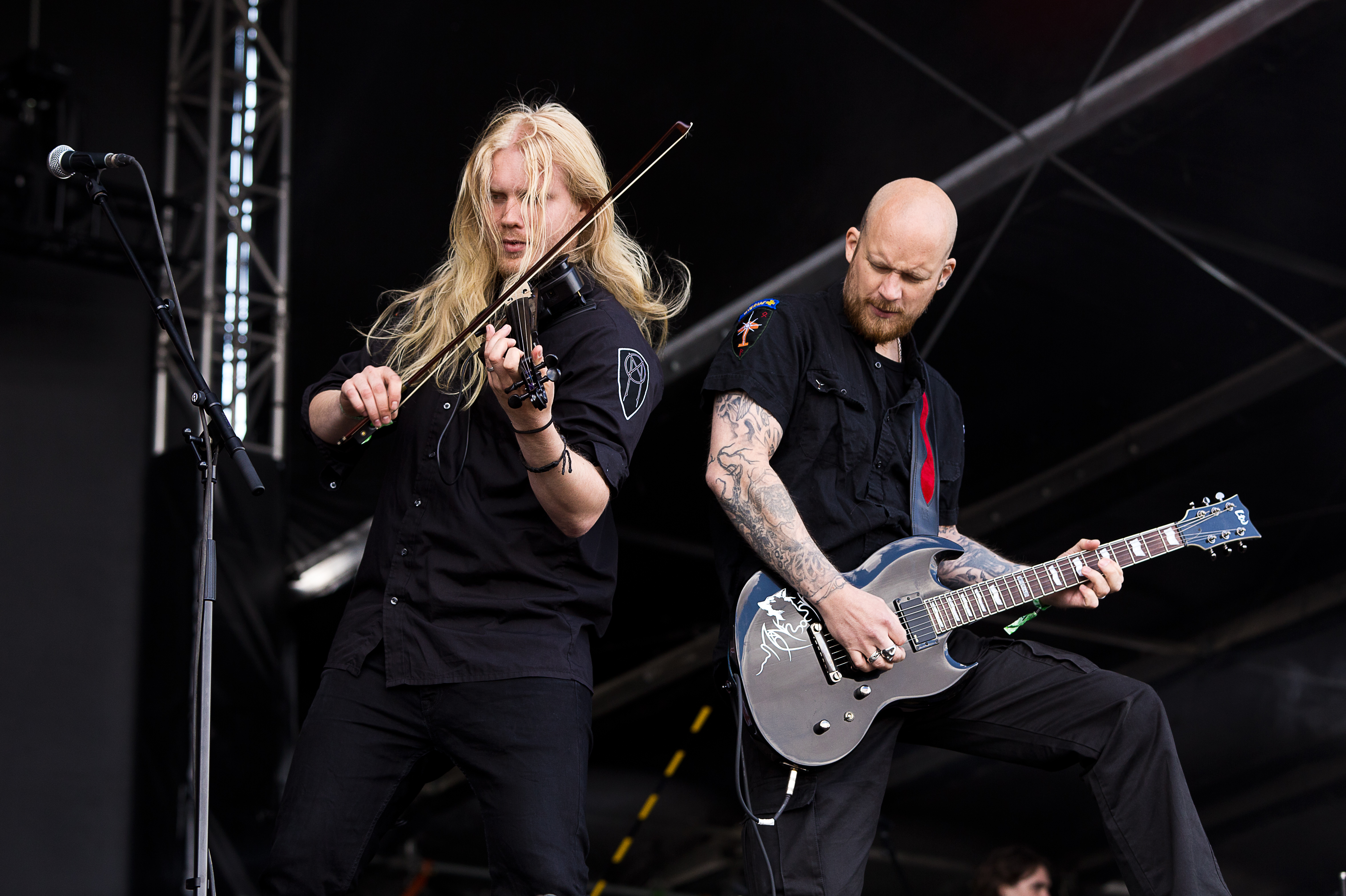 The Swedish viking metal band Månegarm at the Rockharz Open Air 2015 in Ballenstedt/Germany.